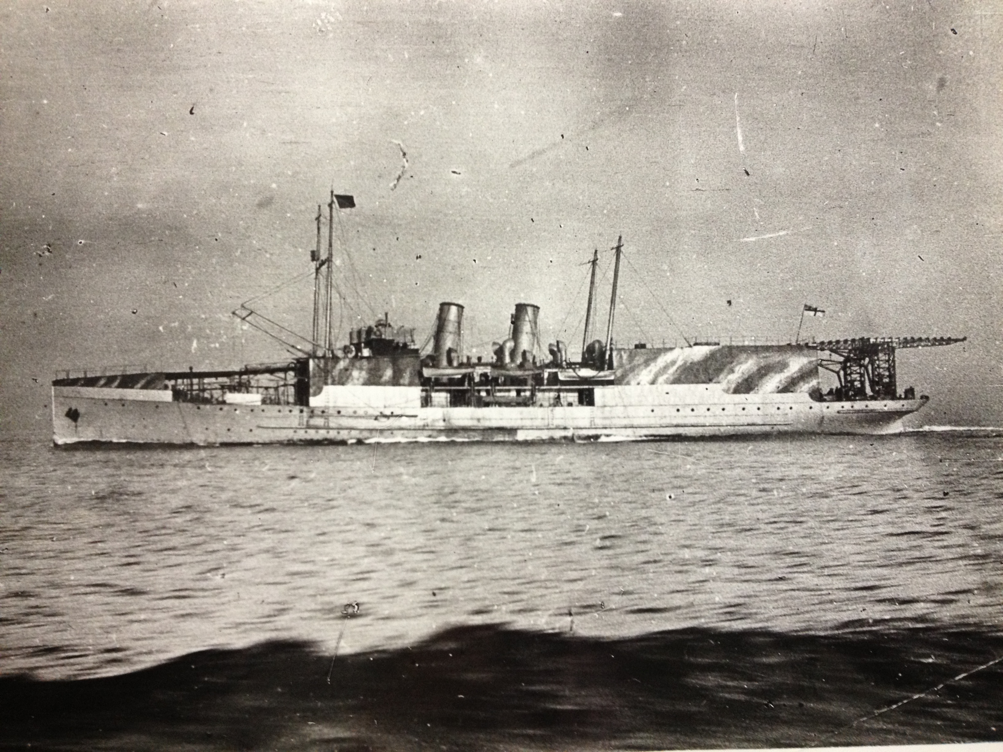 SS Manxman during her First World War commission as HMS Manxman.